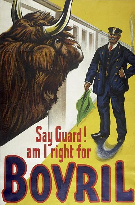 Poster for Bovril, about 1900 V&A Museum no. E. 163-1973 Techniques - Colour lithograph, inks on paper Place - Great Britain Dimensions - height 114 cm, width 76 cm Object Type - This poster is a colour lithograph, made by printing from a flat surface (traditionally stone, now often a metal plate), on which the artist draws or paints the original design with a greasy substance like chalk. The surface is next prepared, moistened and inked; the greasy printing ink adheres to the design, which is then printed onto a sheet of paper. To make a colour lithograph, a separate printing surface is required for each colour. Subjects Depicted - Humour was one of the keys to success in the early marketing campaigns for the beef extract Bovril. In this poster it is a play on words, as the bull puts its head out of the carriage window to enquire if it is `right for Bovril'. Another well-known poster showed a bull looking at a jar of Bovril with the slogan 'Alas! My poor brother'. Trading - The name Bovril is derived from two words: bos, Latin for 'bull' or 'ox', and vril, a fictional word for an energising juice in Edward Bulwer-Lytton's novel The Coming Race (1871). Sales of Bovril were first recorded in Britain in 1886, at the Colonial and Continental Exhibition at South Kensington. But when Samuel Herbert Benson - a former employee of Bovril Ltd - took over as the firm's advertising agent in the 1890s, business started to boom. His poster strategy, with designers working in close collaboration with copywriters, made Bovril a household name.